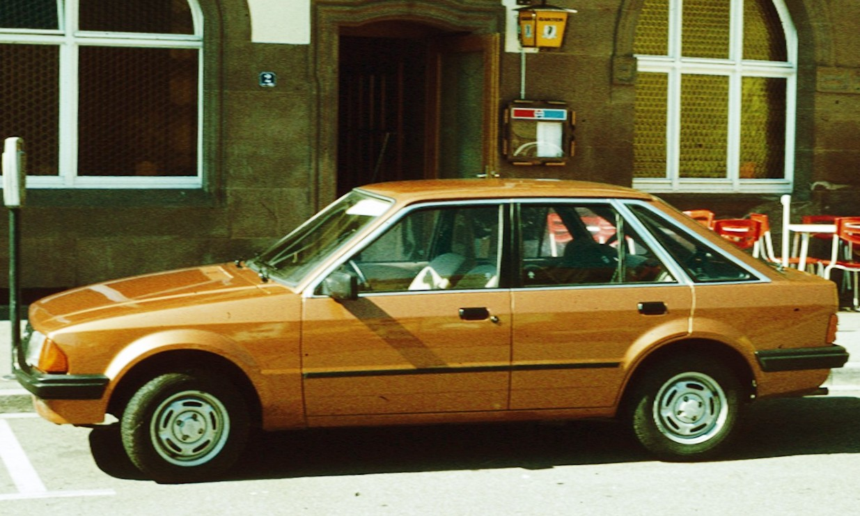 Ford Escort 3 5 door hatchback